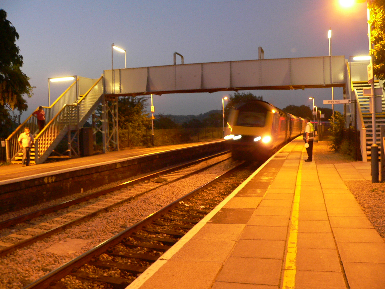 A southbound First Great Western HST pulls into Castle Cary railway station in Somerset on a London Paddington to Plymouth serivce.